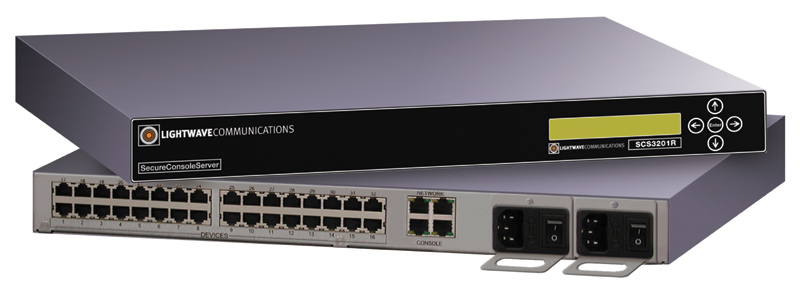 Secure Console Server 3201R from Lightwave Communications